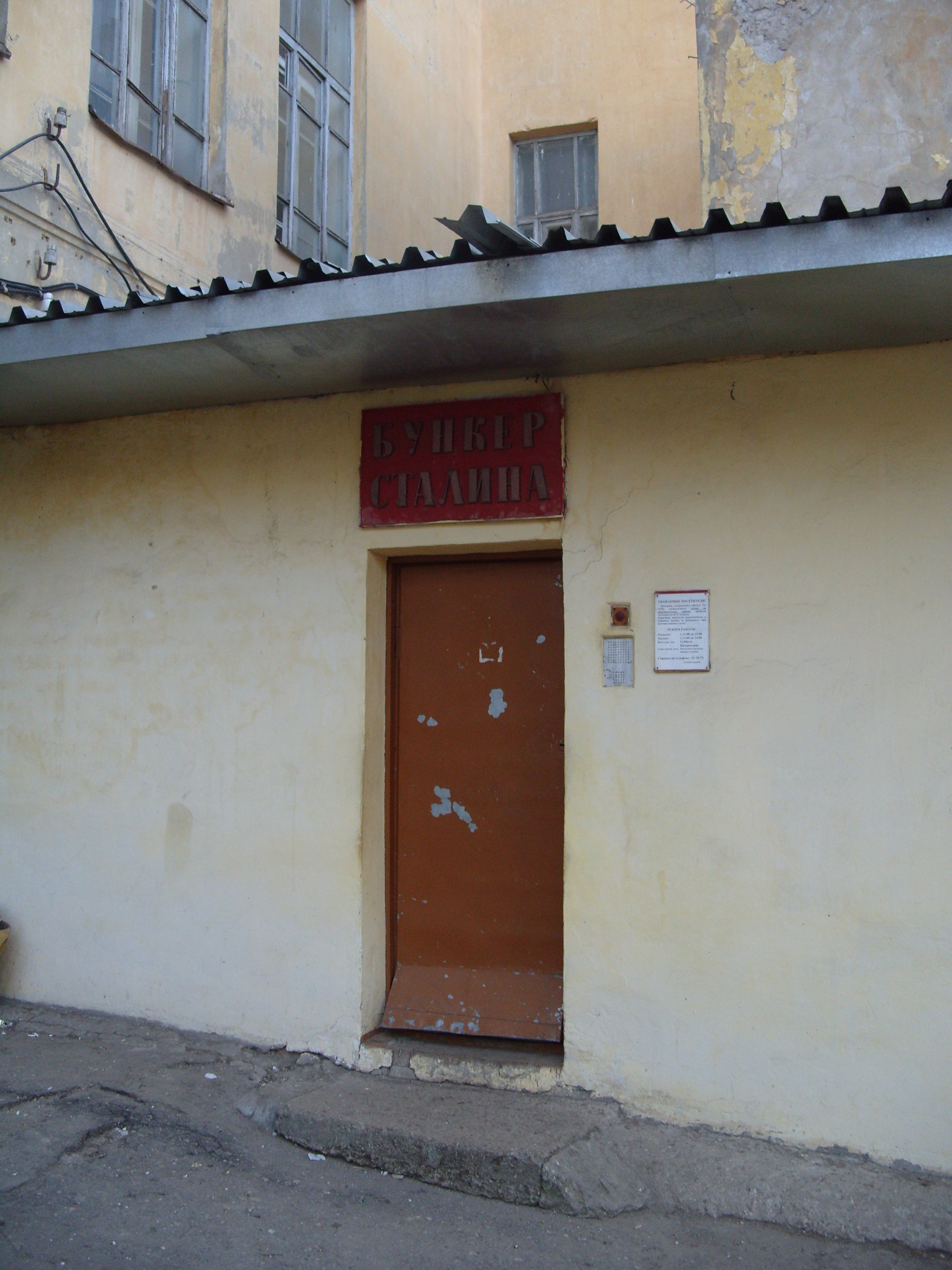 Stalin's bounker in Samara, Russia